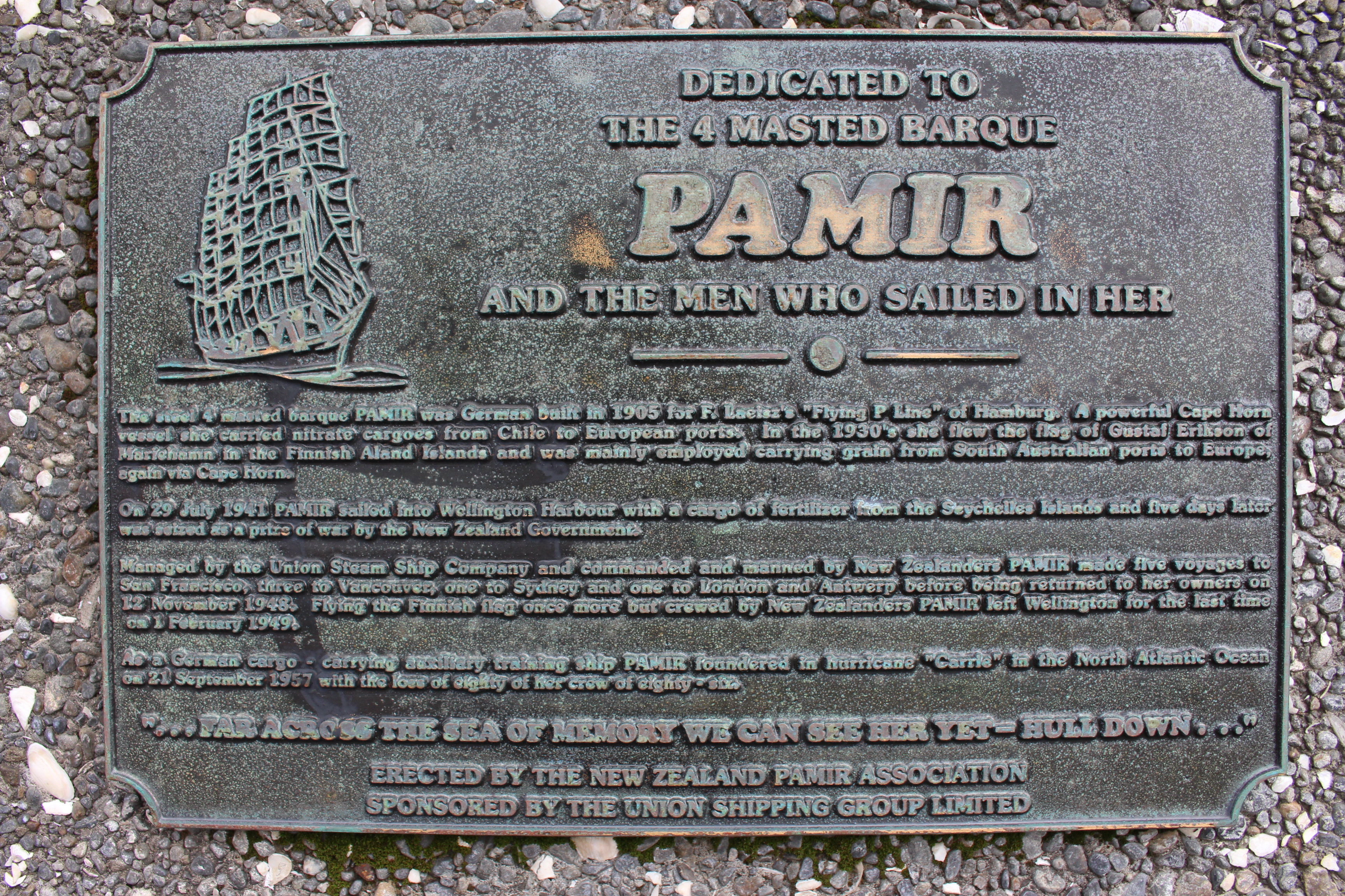 Plaque commemorating the German 4 masted barque Pamir, installed on the waterfron, Wellington, New Zealand